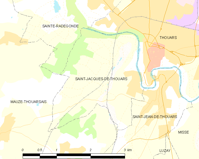 Map of French municipality Saint-Jacques-de-Thouars